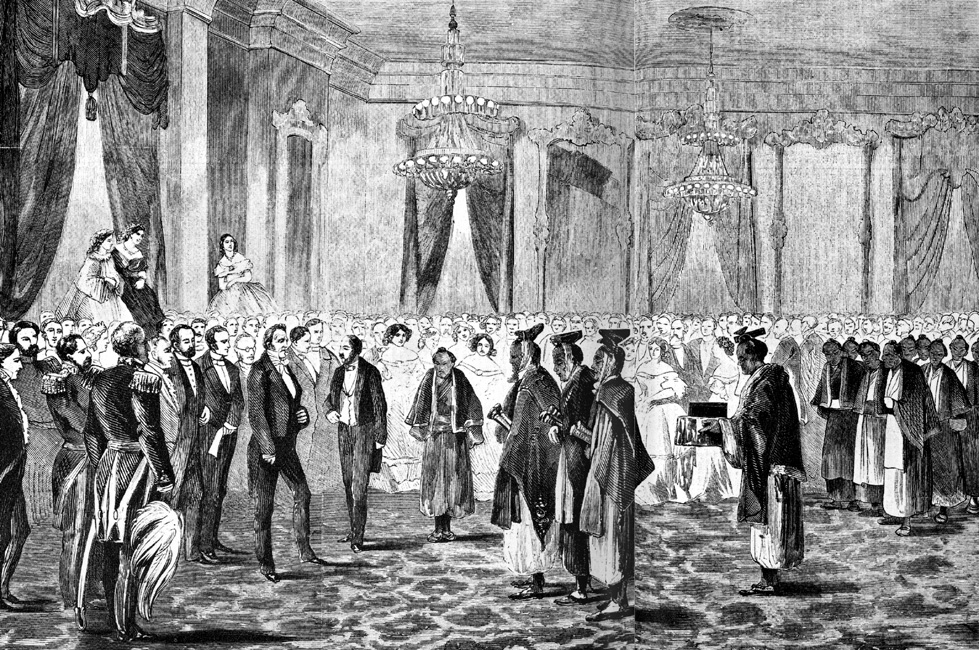 President Buchanan welcoming the Japanese Embassy.